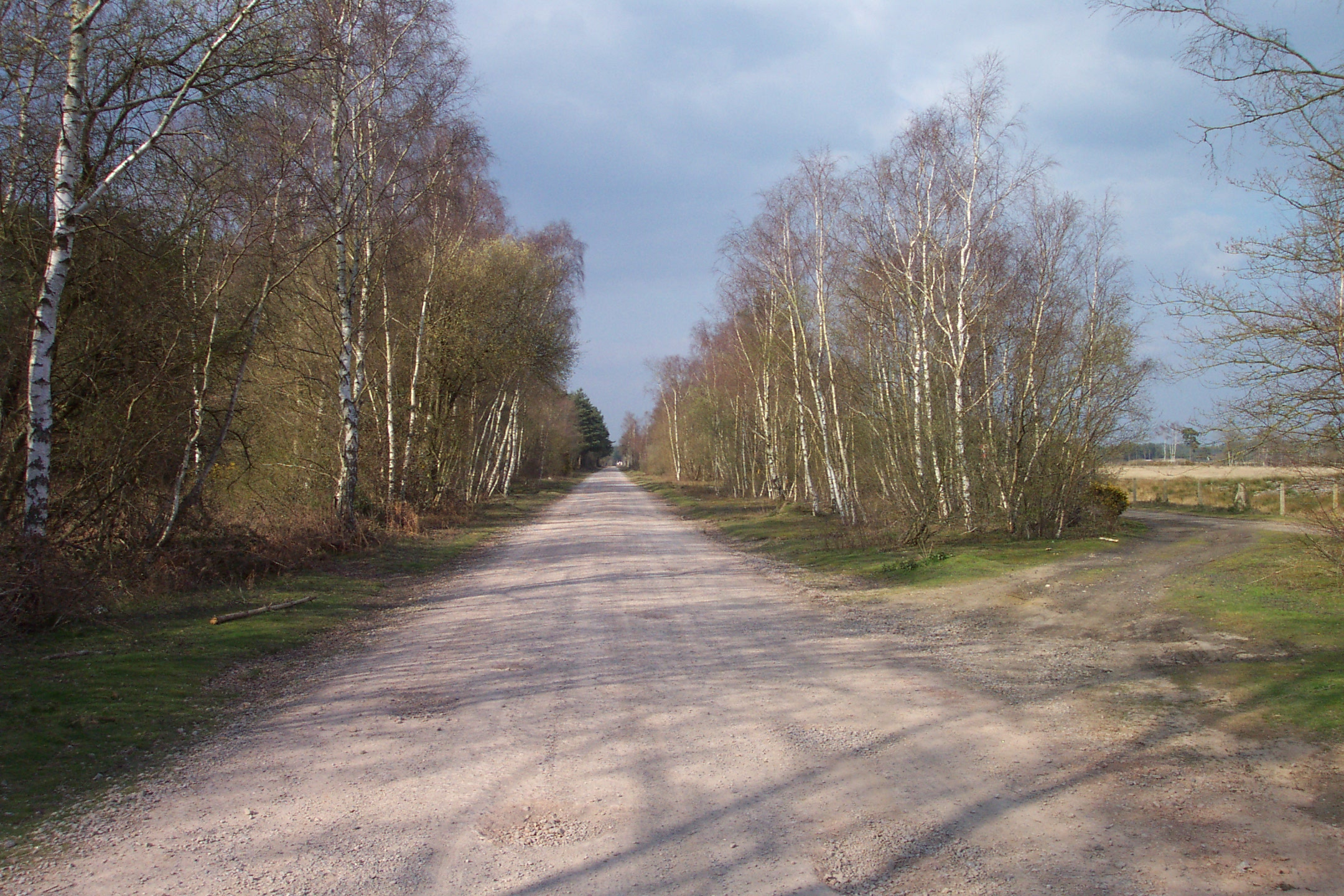 The trackbed of the former Longmoor Military Railway, looking north from the area of Woolmer. The railway was principally used to train soldiers in the operation of railways, and linked Liss with Bordon Camp, with a loop track around the Woolmer Forest area. For more information see the Wikipedia article Longmoor Military Railway.